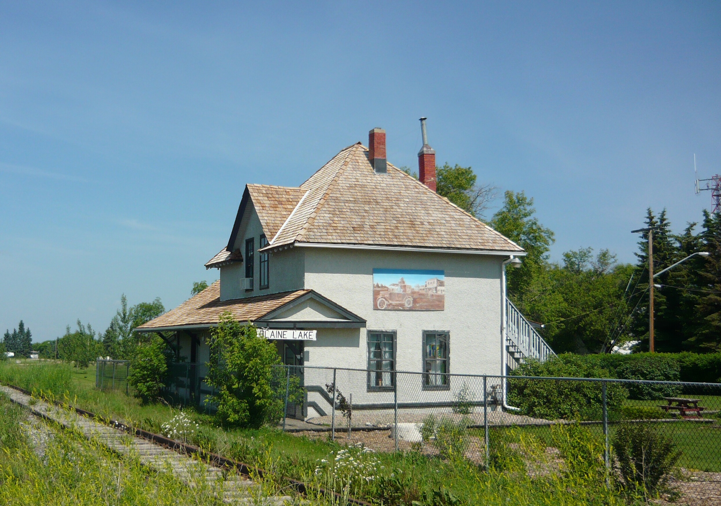 Blaine Lake Library, formerly the Canadian National Railways station, at intersection of Main Street and Railway Avenue. Photo taken from Main Street.